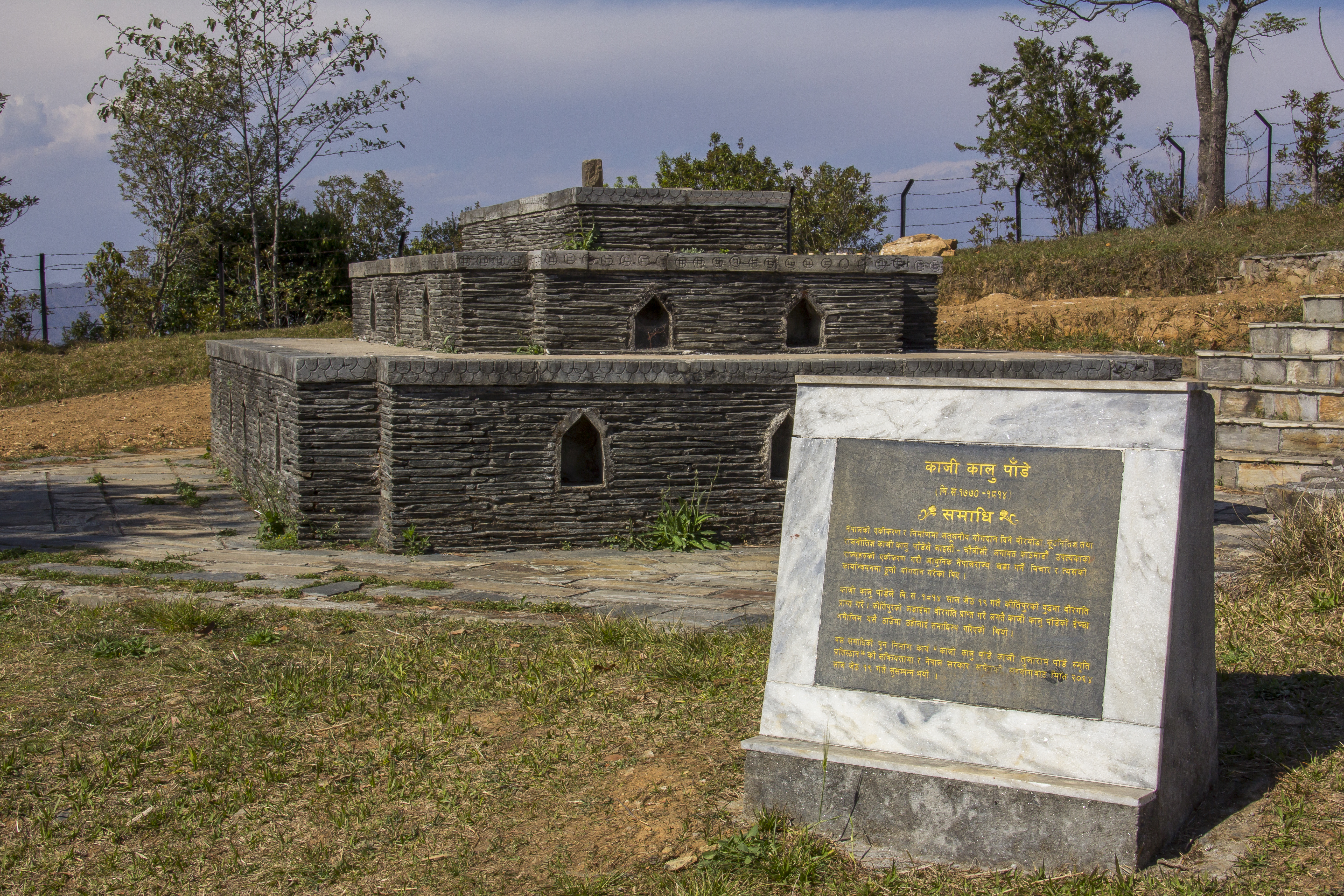 विर योद्धा कालु पाँडेको समाधि स्थल। काठमाडौँ पश्चिमभेगस्थित दहचोक गाविसको ६ नं वडामा यो ऐतिहासिक स्थल रहेको छ। कालु पाँडेले आफू मर्नुअघि अाफ्नो समाधिलाई कीर्तिपुर र मनकामना देखिने ठाउँमा राख्नु भनेका कारण यहाँ राखिएको भन्ने किंवदन्ति छ।